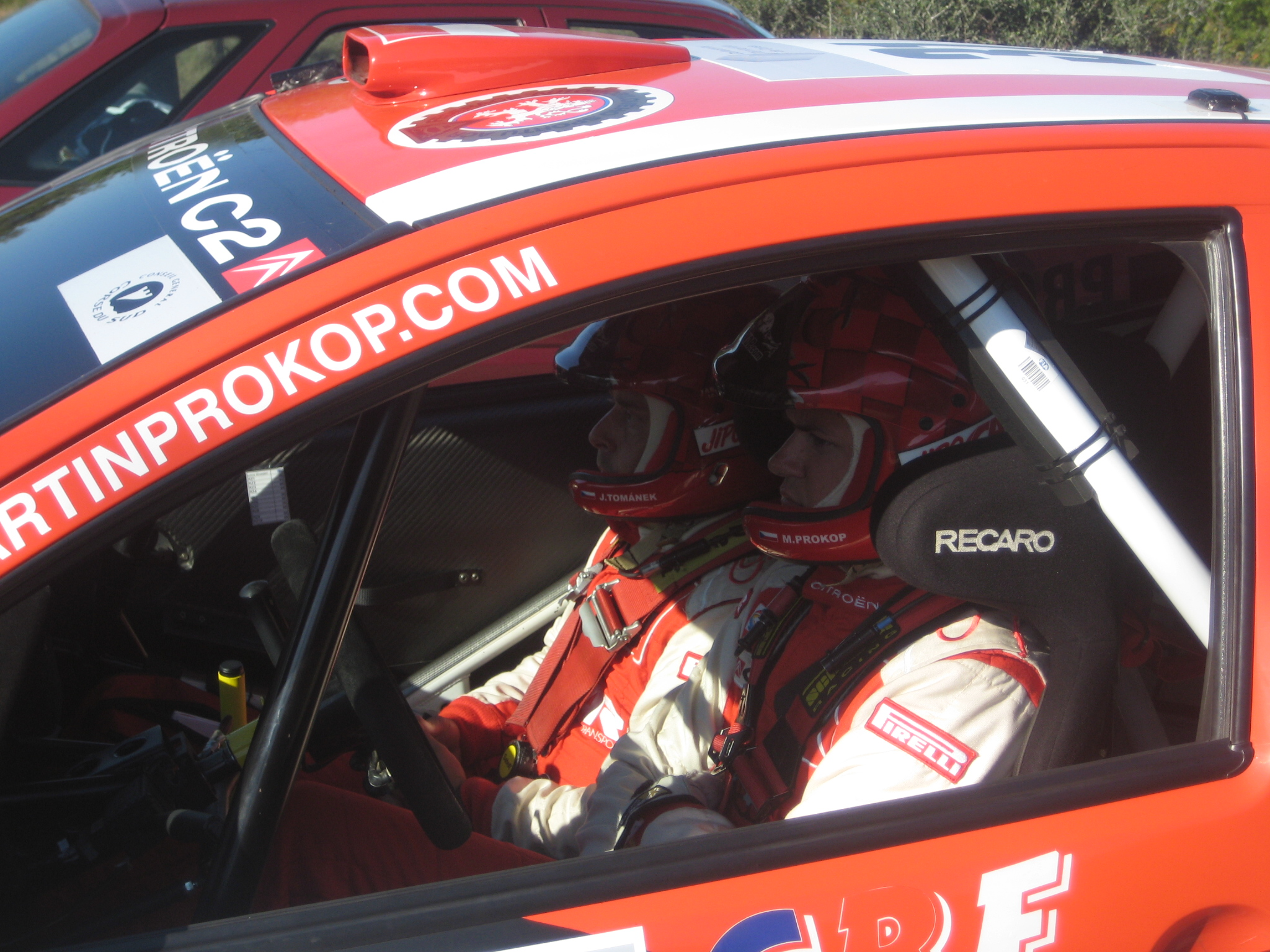 2008 Rallye de France, Day 1-SS5, Martin Prokop - Citroen C2 S1600